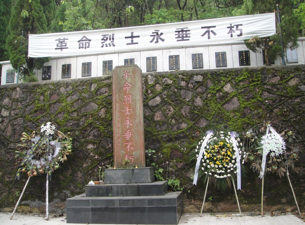 中文（中国大陆）: source=Own work author=*九峰烈士墓.JNG: 云中漫步